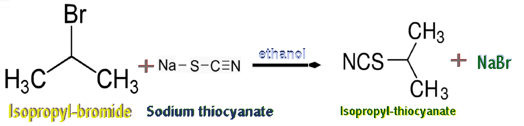 Reaction between sodium thiocianate and isopropyl-bromide